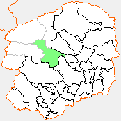 Map of Imaichi, Tochigi, Japan.